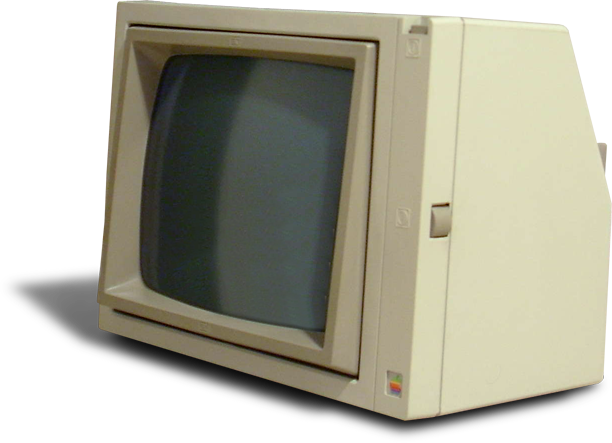 I took this picture of my Apple Monitor // for use in the article Apple Monitor II.